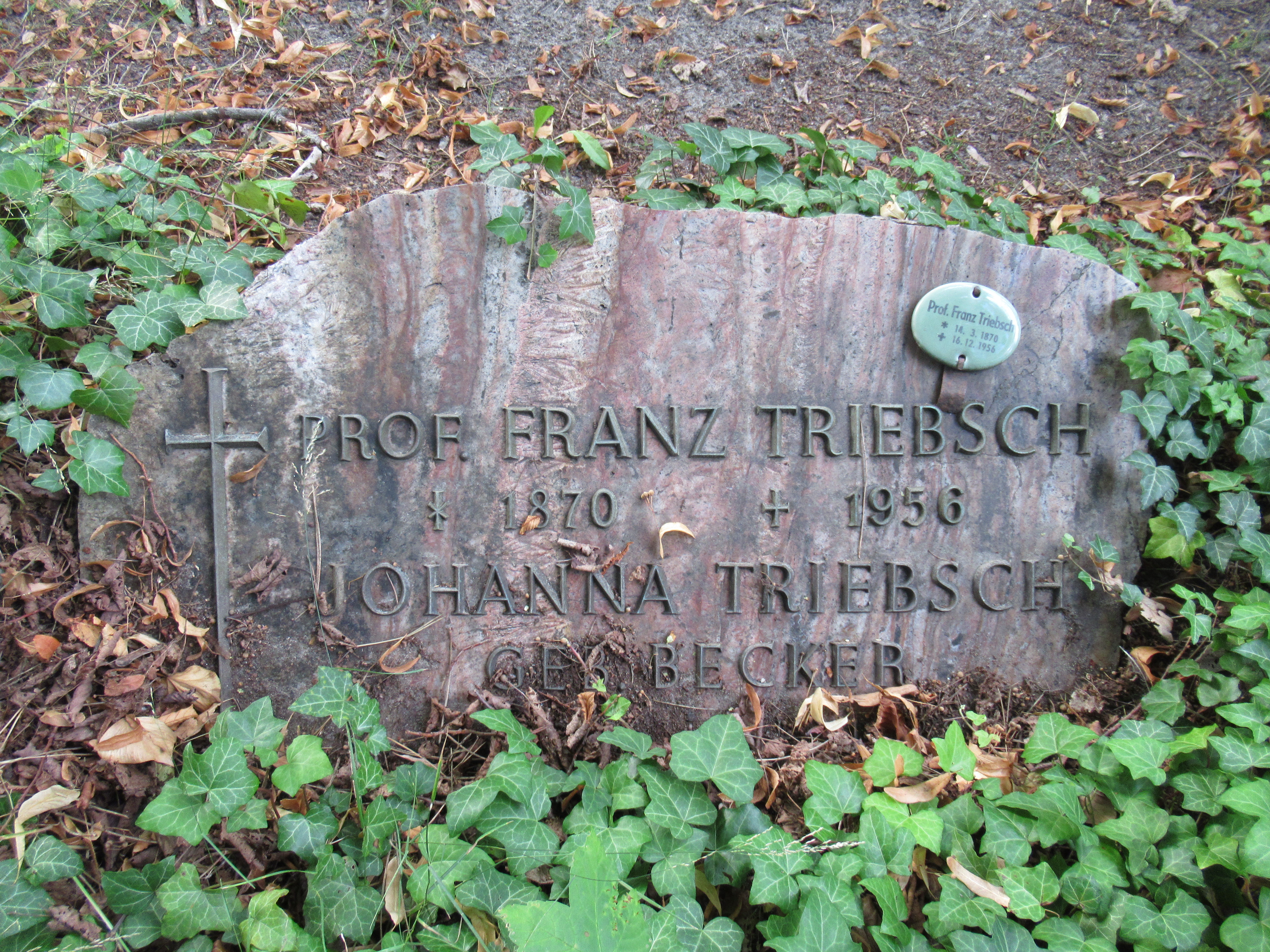 Grave of German painter Franz Triebsch at Friedhof Heerstraße in Berlin-Westend